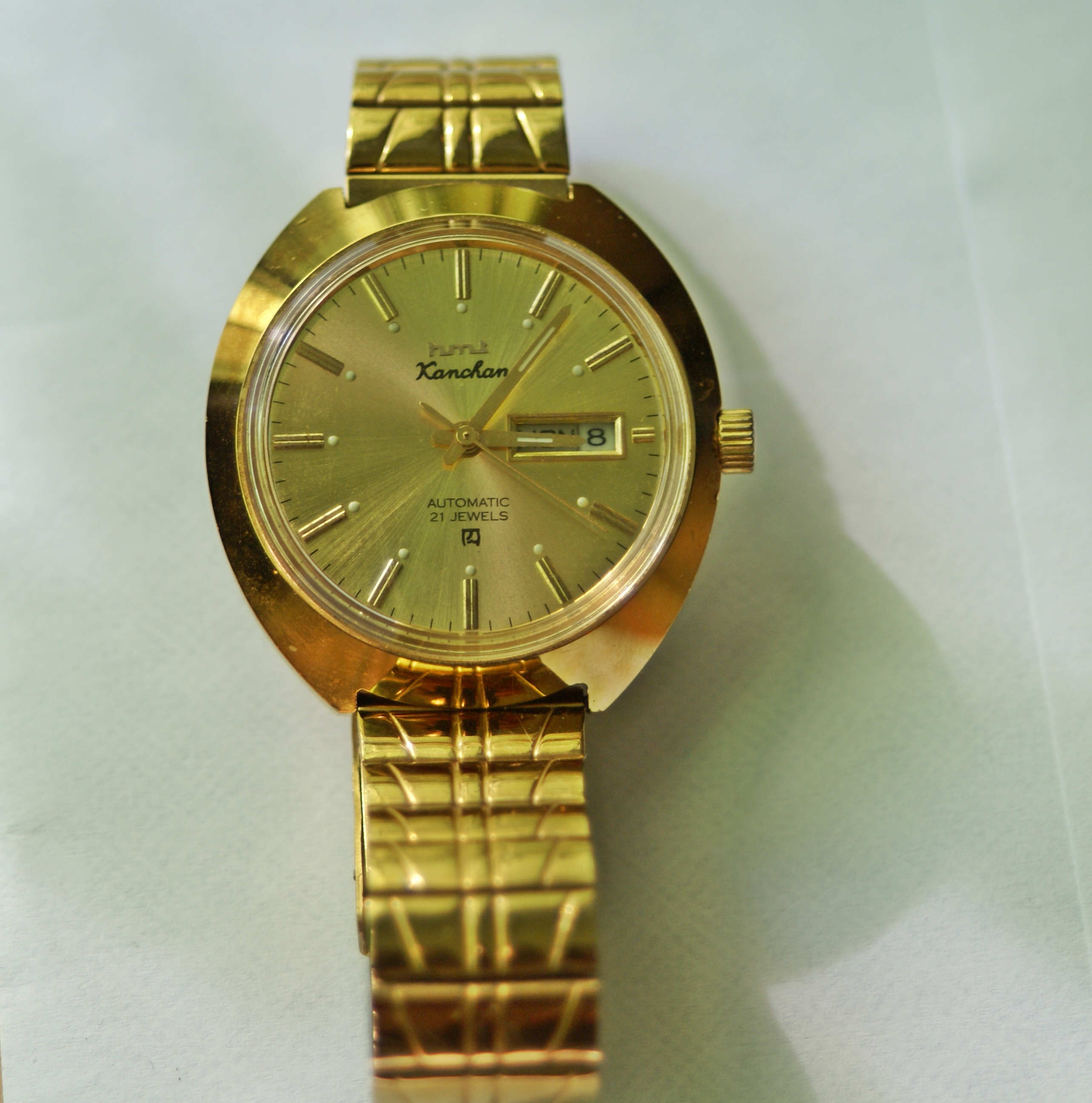 HMT Kanchan Automatic wrist watch